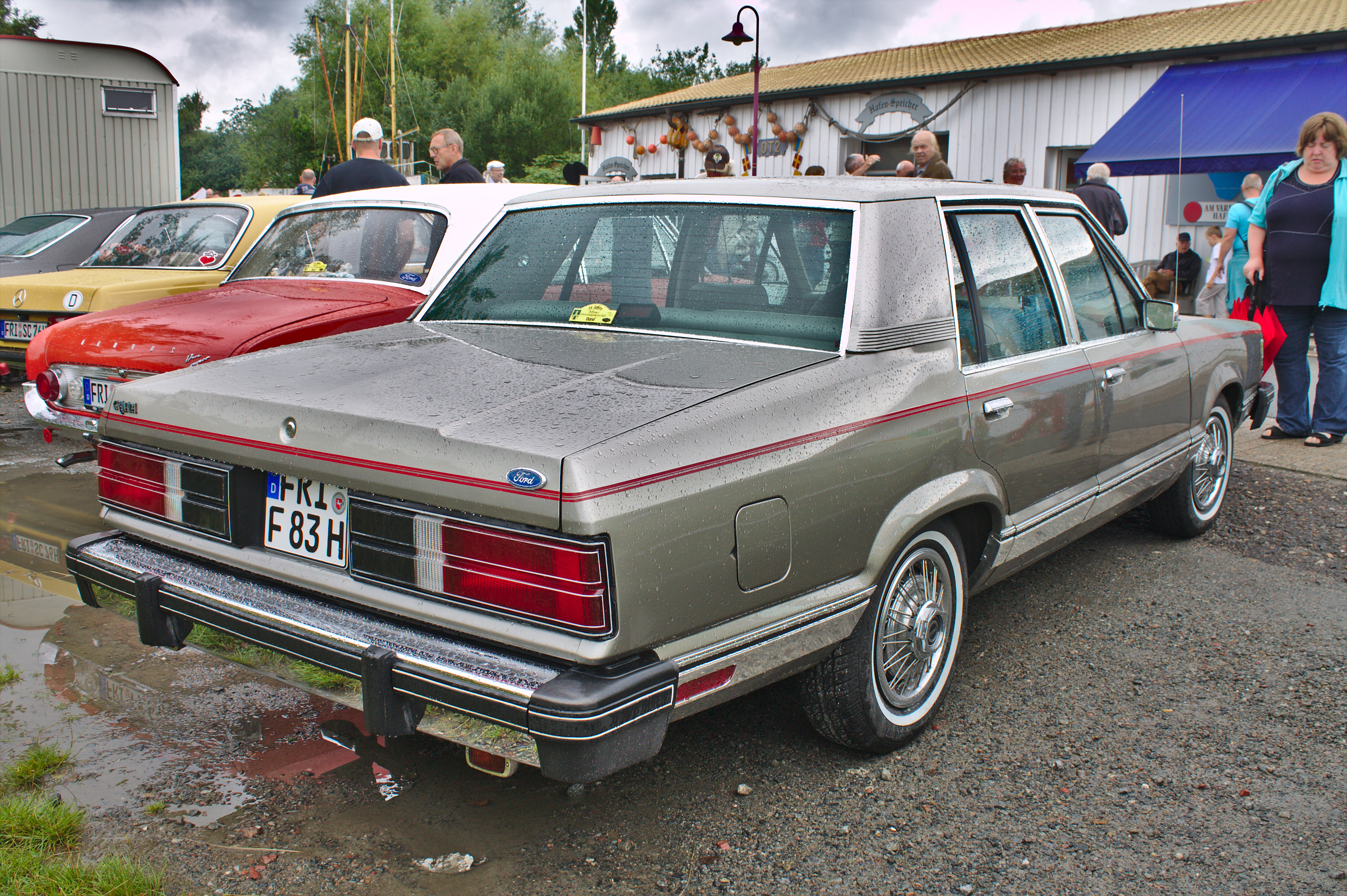 Rear right view of a 1982-issue Ford Granada (U.S. version) sedan on a classic car meeting in Varel, Lower Saxony, Germany.